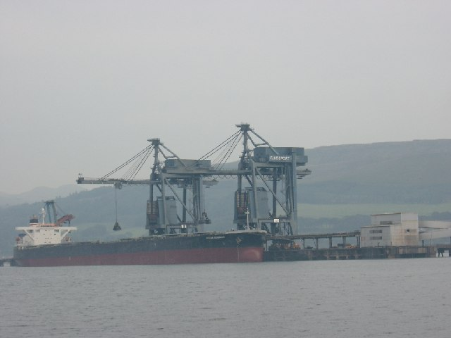 Unloading at Hunterston Ore Terminal